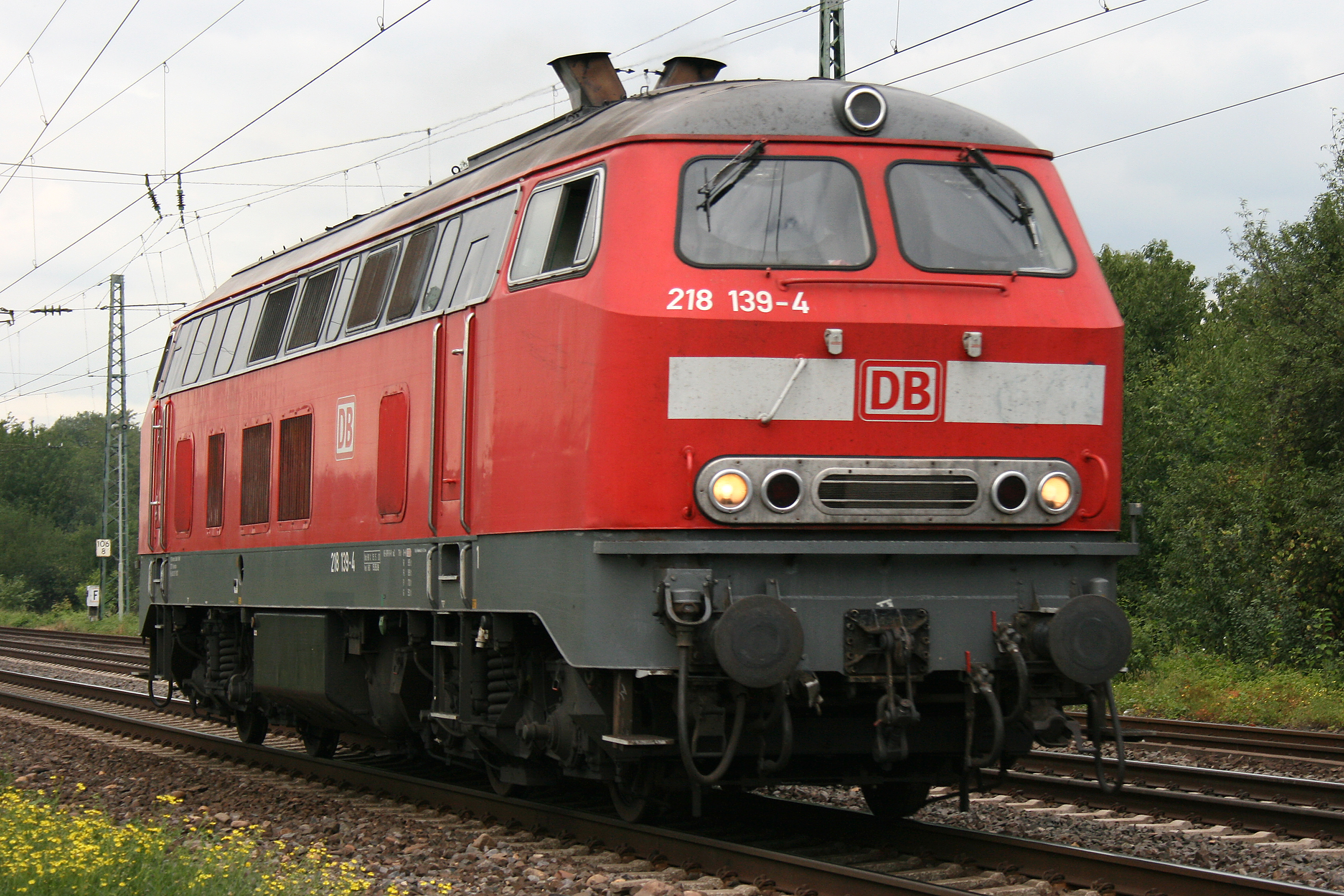 DBAG Class 218 number 218 139-4 near Unkel in Rhineland-Palatinate.